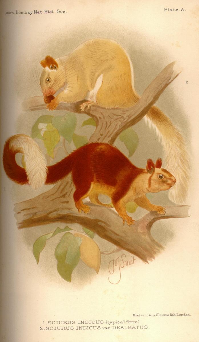 Color plate of Indian giant squirrel subspecies Sciurus indicus dealbatus (top) and Sciurus indicus typicus (bottom) from the article, "The large Indian squirrel (Sciurus indicus erx.) and its local races or sub-species," by W. T. Blanford F. R. S. Journal of the Bombay Natural History Society, 1898, 11:298-305. Scanned from original copy by Fowler&fowler«Talk» 16:04, 27 October 2007 (UTC)